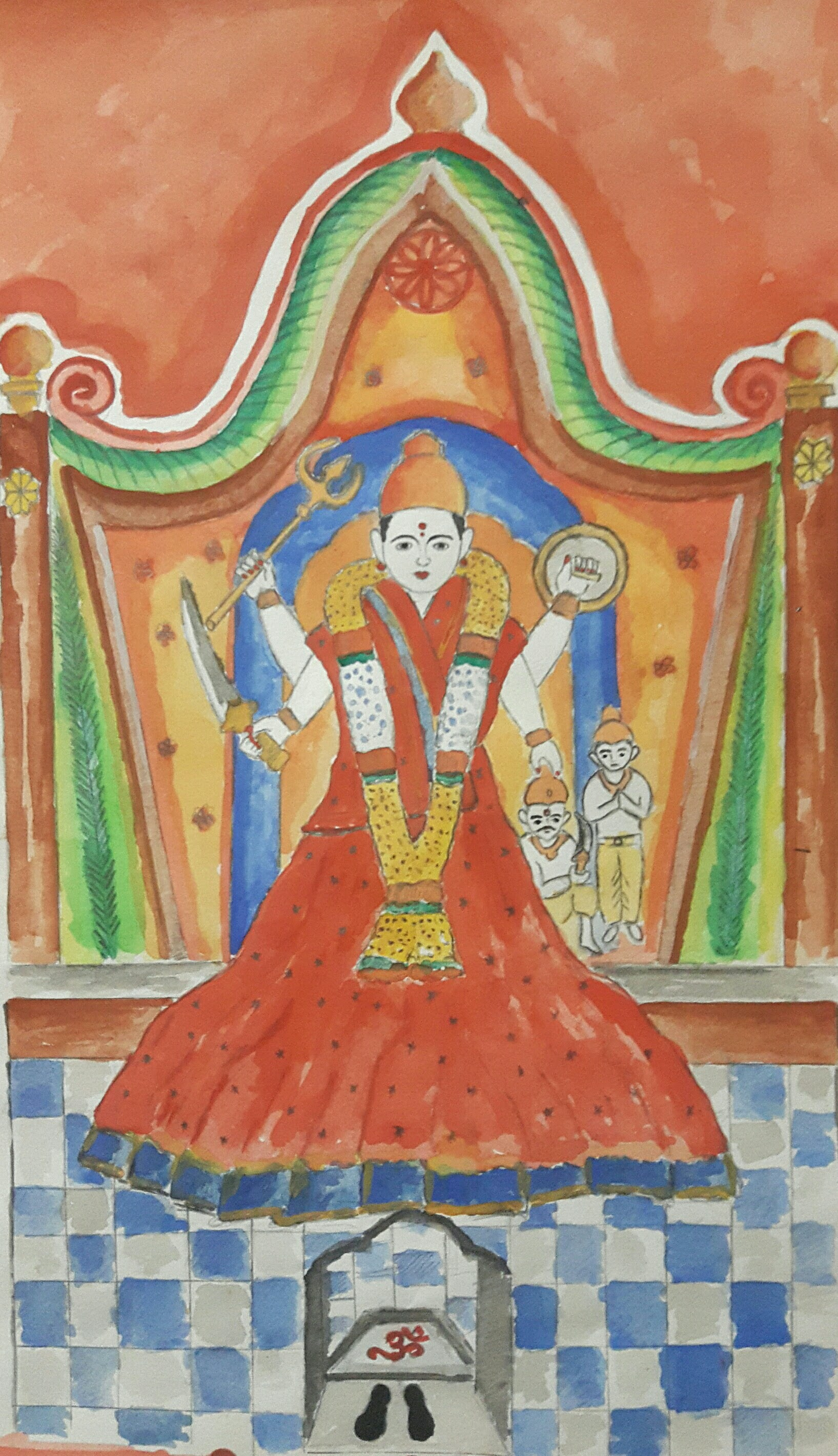 Aryadurga